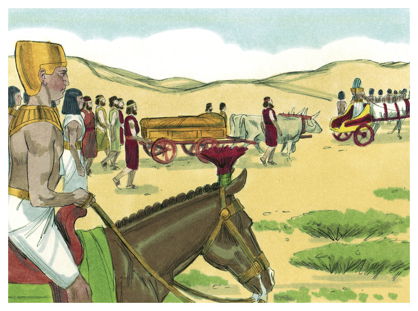 Biblical illustration of Book of Genesis Chapter 50